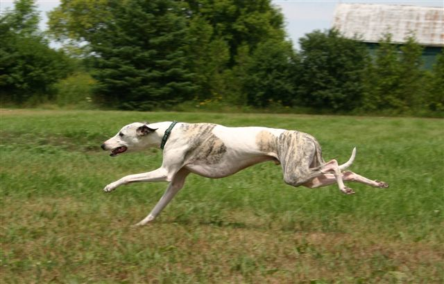 A Whippet named Peri running after his ball.